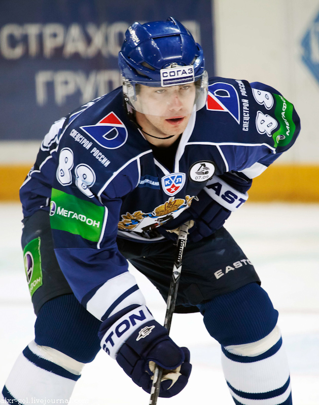 Jakub Petružálek in a KHL game HC Sibir Novosibirsk vs. Amur Khabarovsk on December 4, 2011.